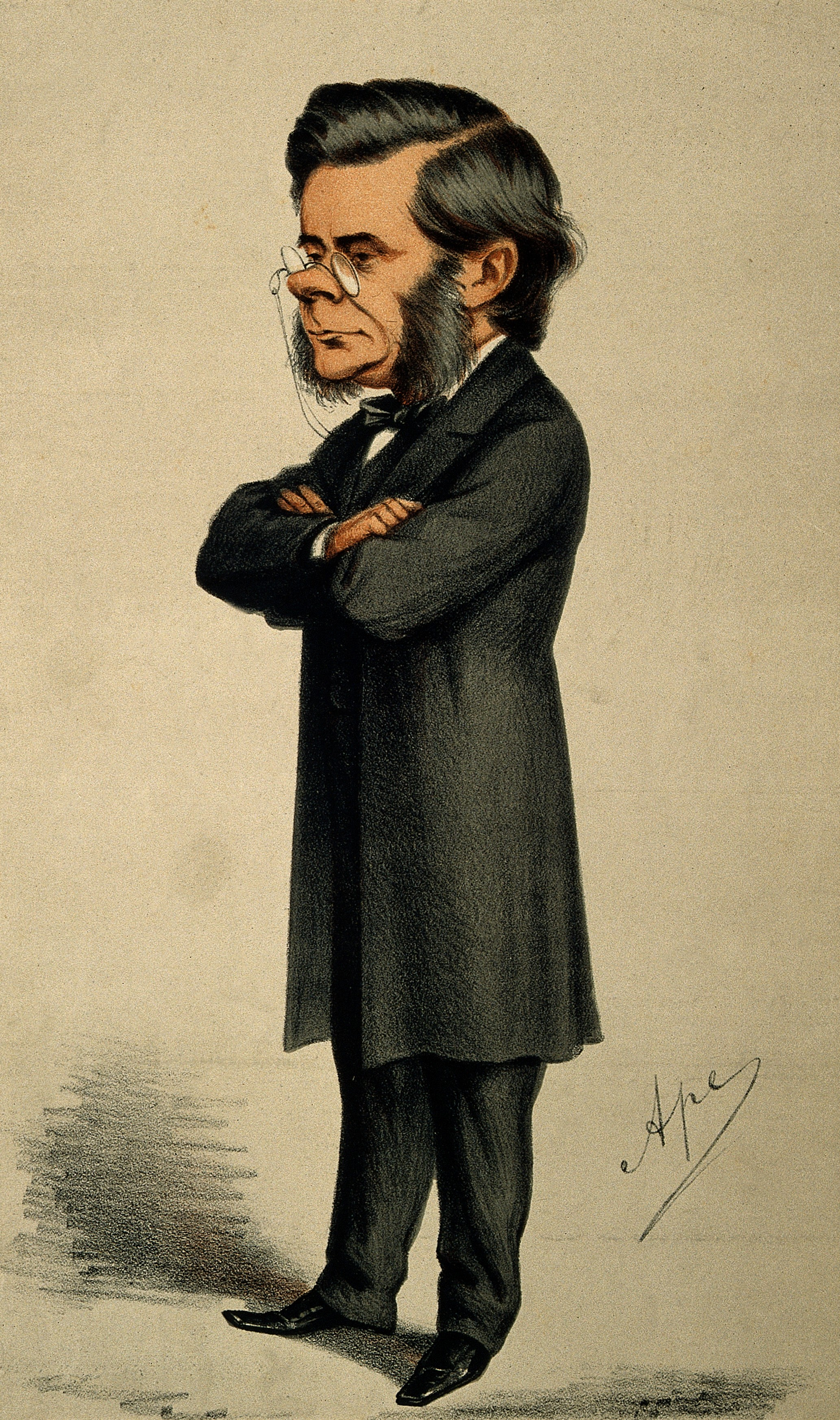 Topic-LCSH: Eyeglasses. Genre/Technique: Portrait prints. Lithographs. Subject name: Huxley, Thomas Henry, 1825-1895.